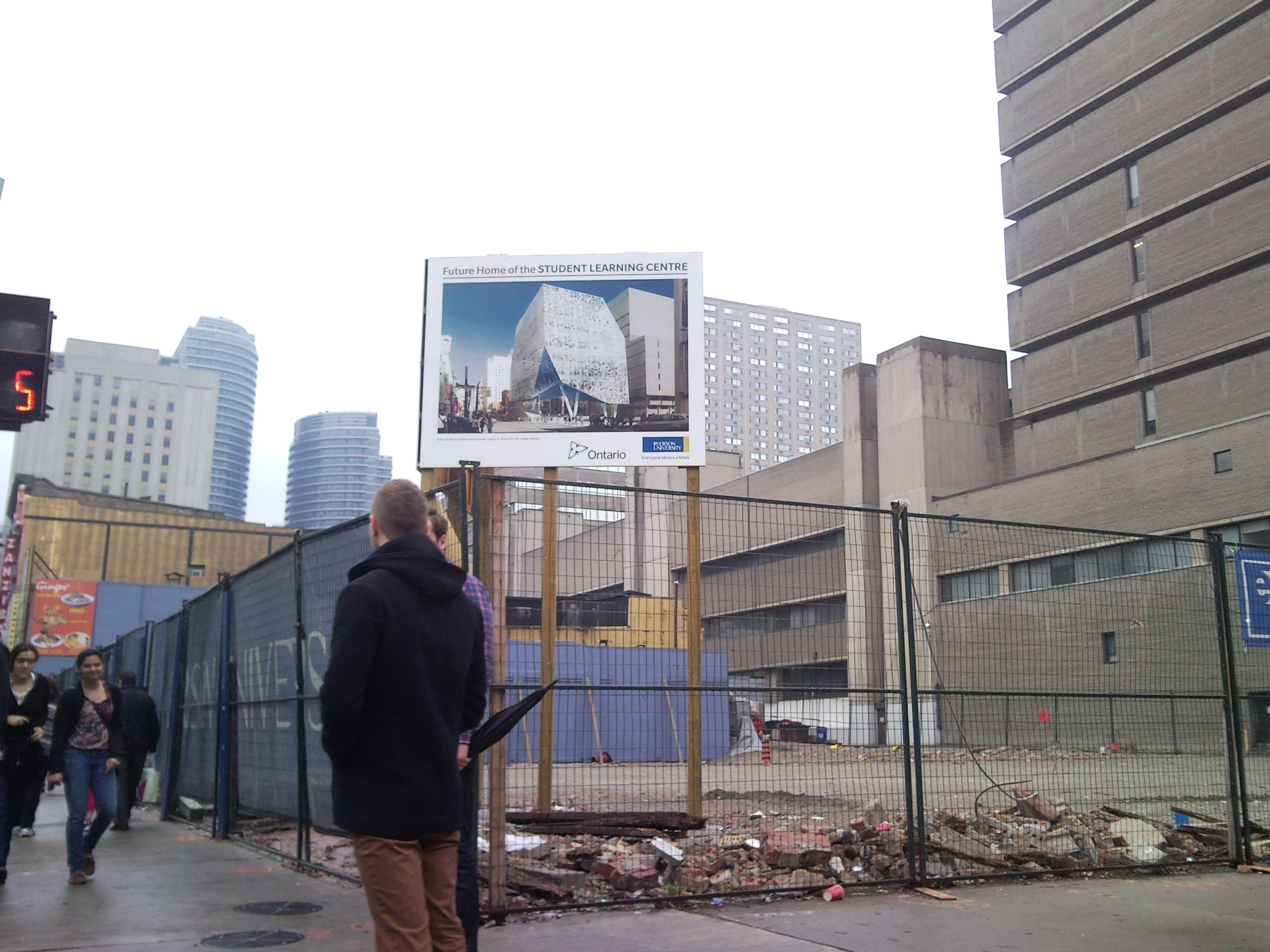 The empty & demolished Sam The Record Man building photographed in Toronto, Ontario, Canada.